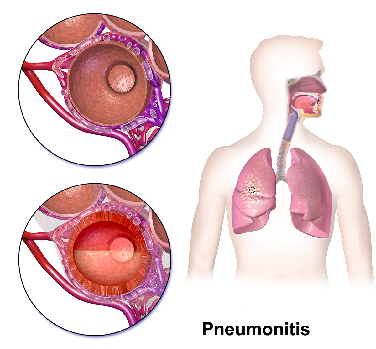 Pneumonitis. See a full animation of this medical topic.